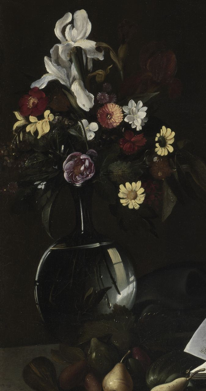 detail flowers with dew drops